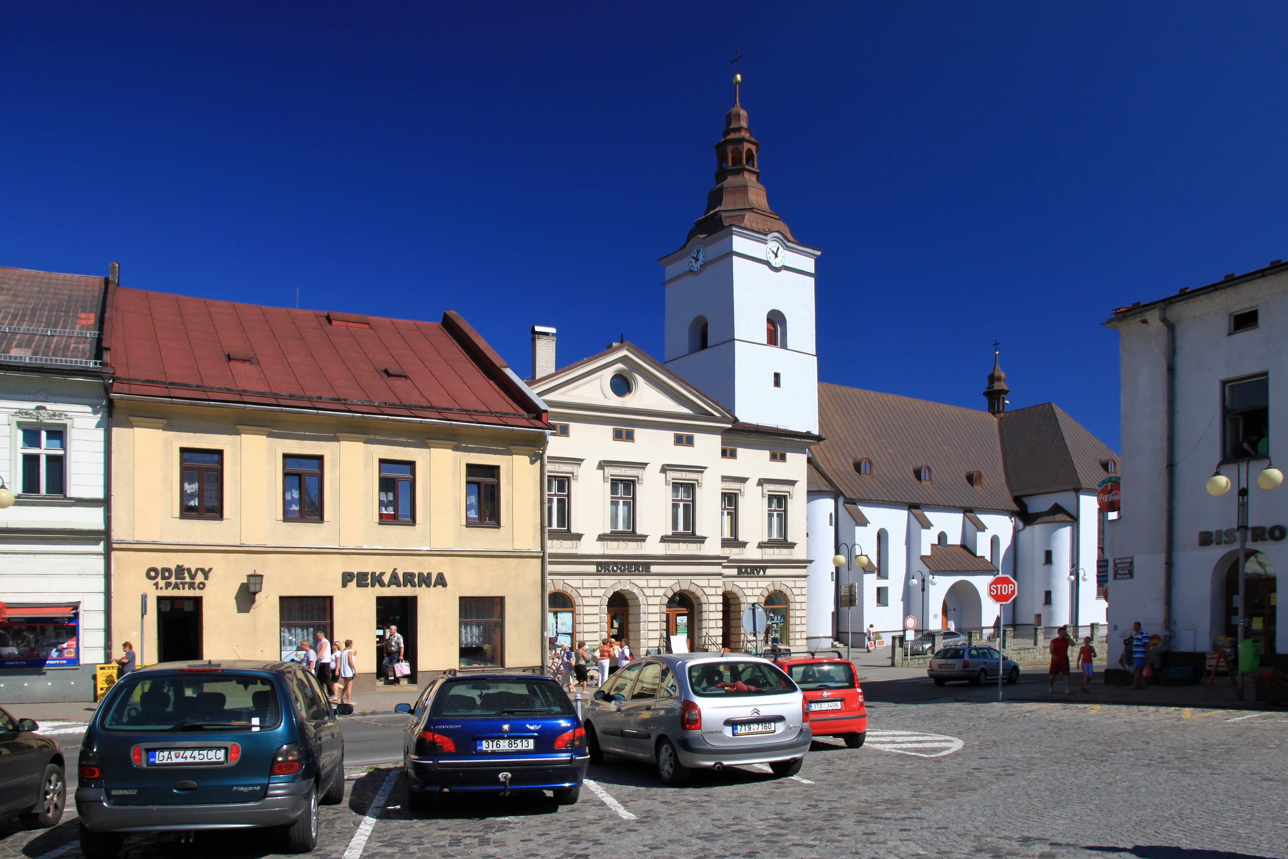 Jablunkov, Mariánské square and Corpus Christi Church